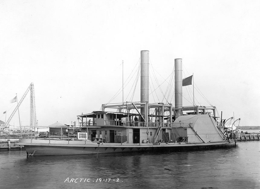 USS Arctic in harbor, mid-1898. Originally the municipal icebreaker Ice Boat No. 3, the vessel served briefly as USS Arctic in 1898 during the Spanish-American War. The difference between this image and the other extant photo indicate that this vessel was a double-ender, with a smaller pilothouse astern as shown here.